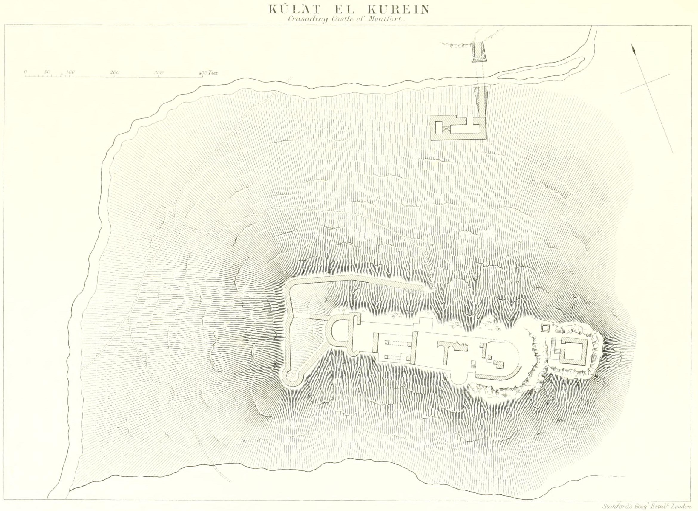 Kulat el Kurein from the 1871-77 Palestine Exploration Fund Survey of Palestine